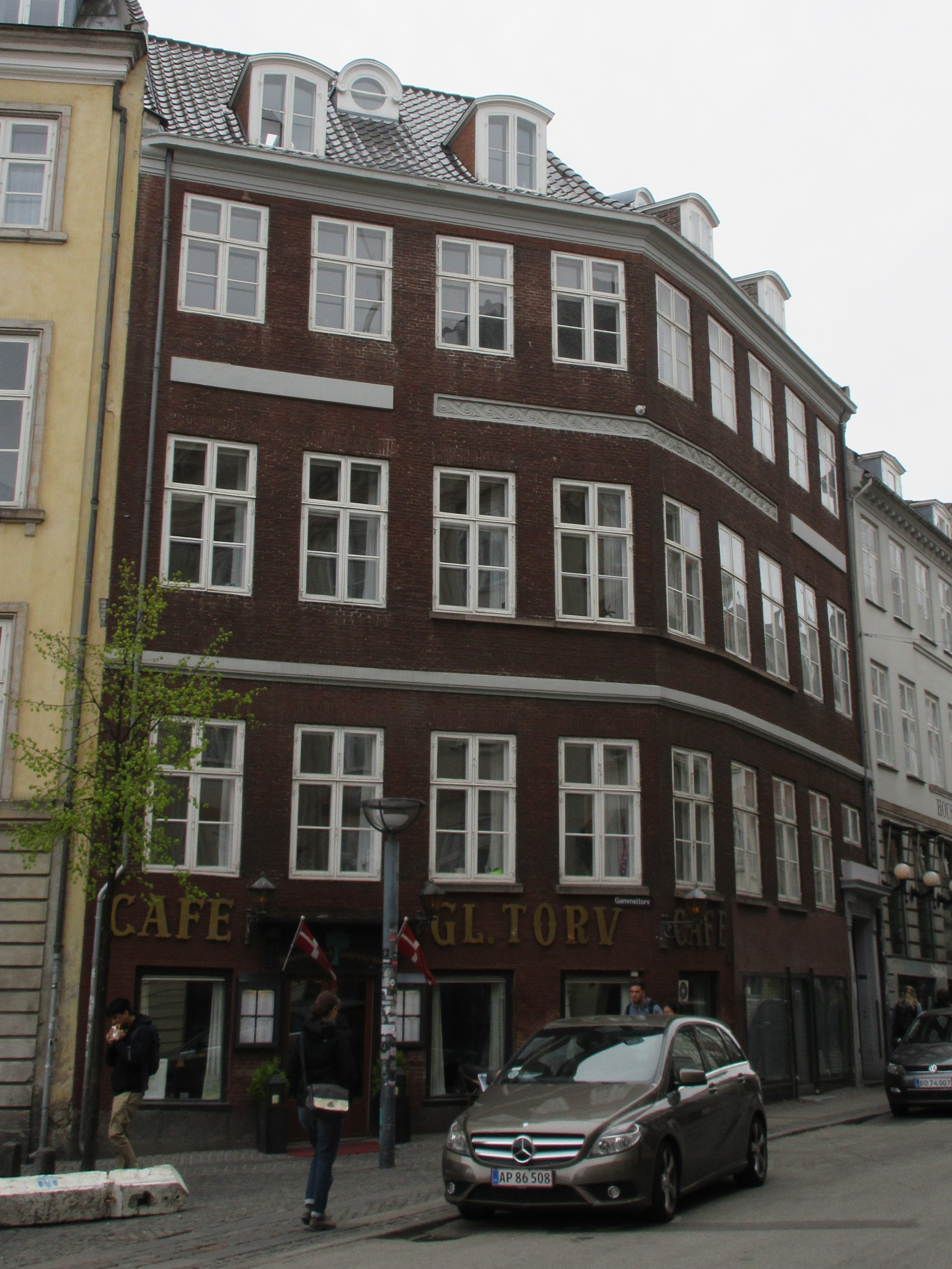 Vestergade 1 in Copenhagen, Denmark